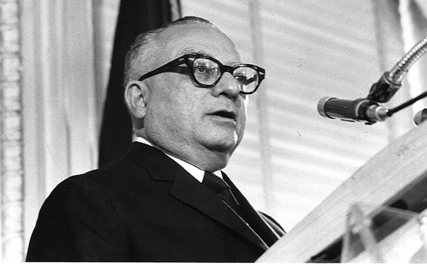 Picture of Rómulo Betancourt that states "Courtesy Prints and Photographs Divisions, Library of Congress".